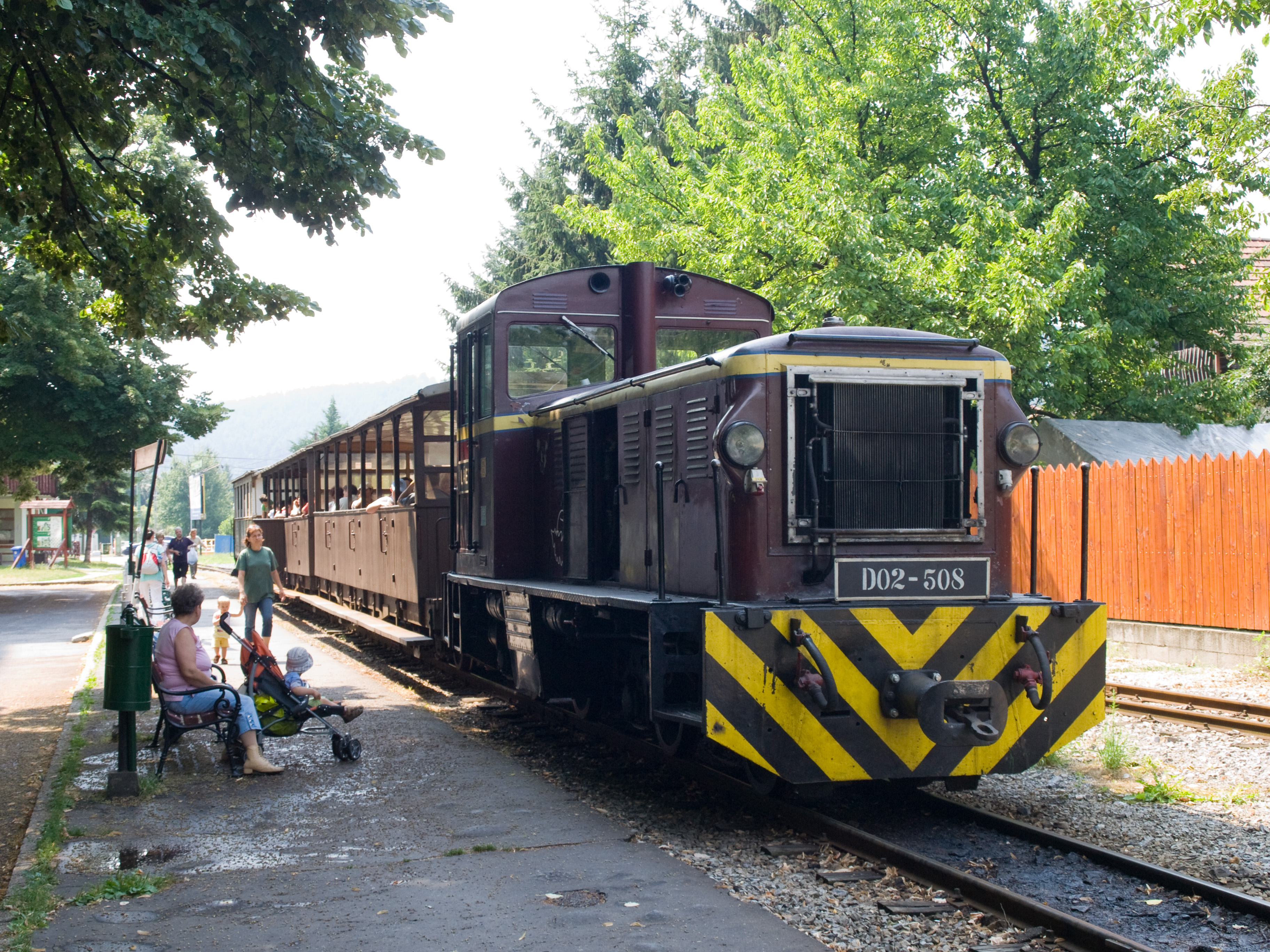 Narrow gauge railway to Lillafüred, Miskolc